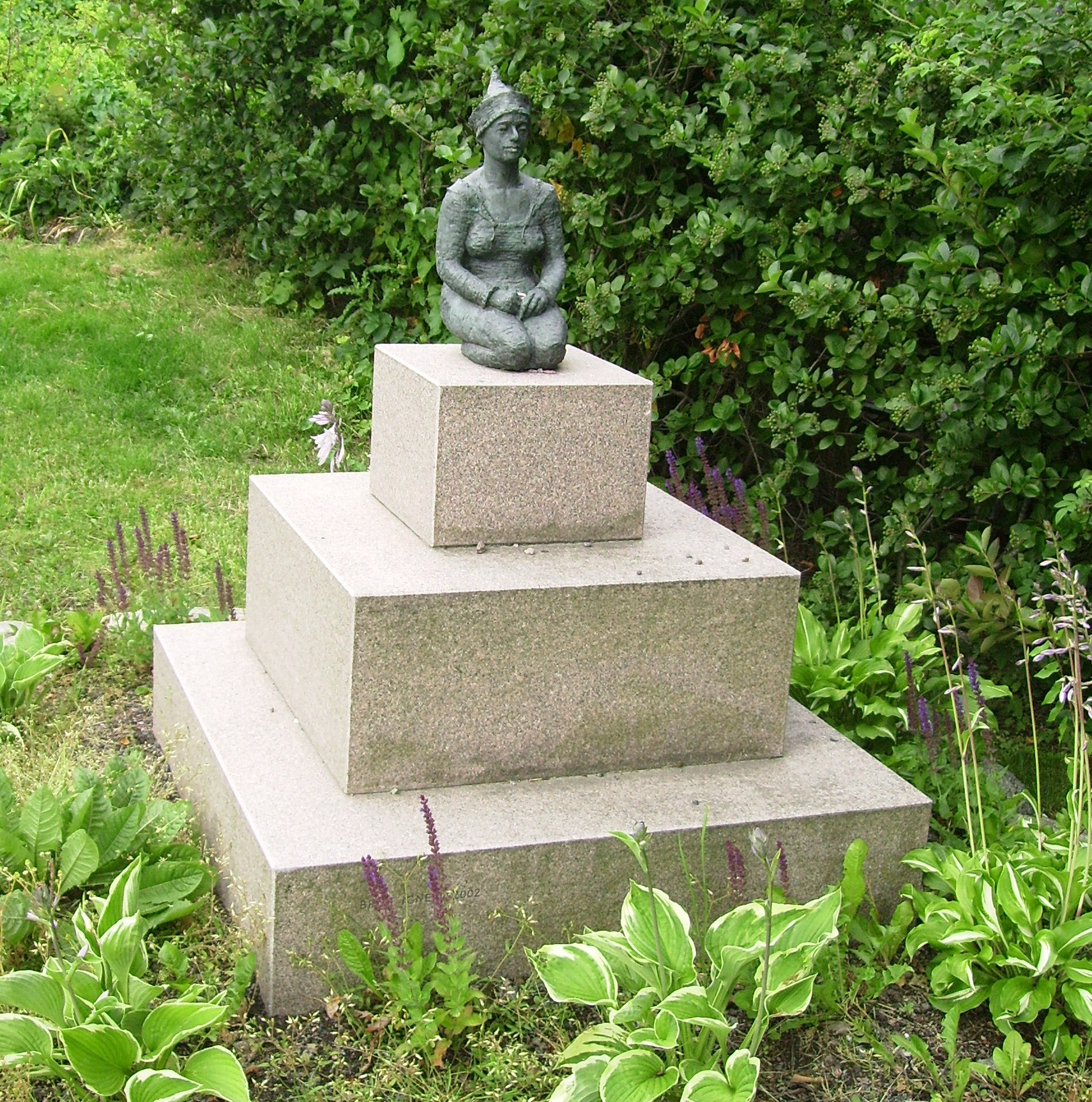 Picture of Meditation, sculpture in Gothenburg